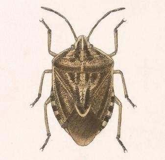 Biologia Centrali-Americana - Trichopepla semivittata Cut-out from original (Biologia Centrali-Americana (8271461927).jpg) shown below